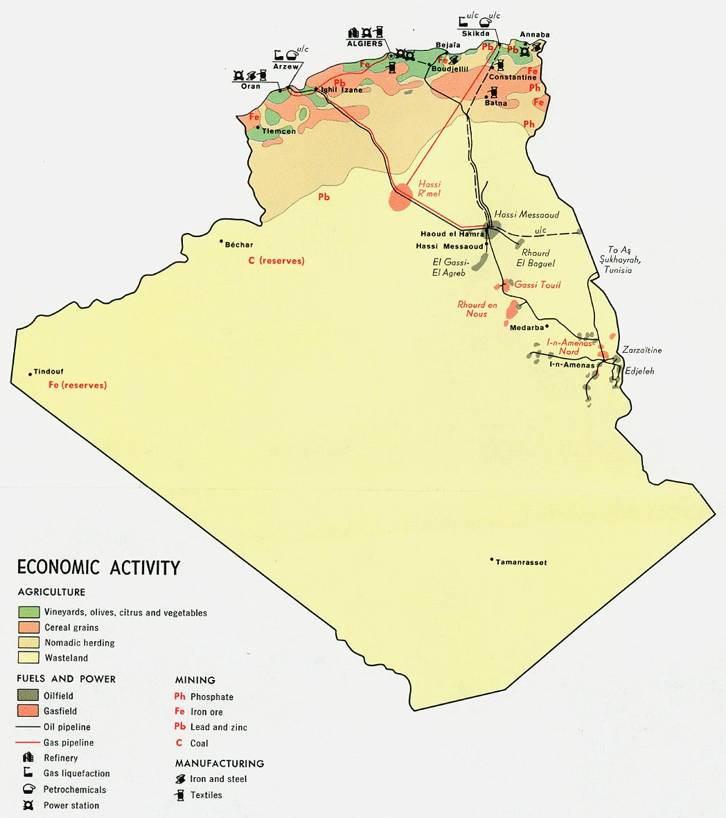 Thematic Maps of Algeria' economic activity in 1971